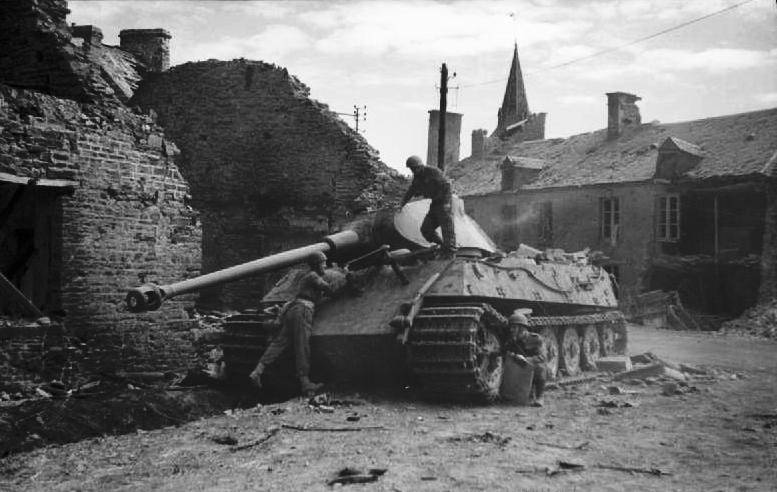 The British Army in the Normandy Campaign 1944 Troops inspect a knocked out King Tiger tank in Le Plessis-Grimoult, 10 August 1944. (Porsche turret).